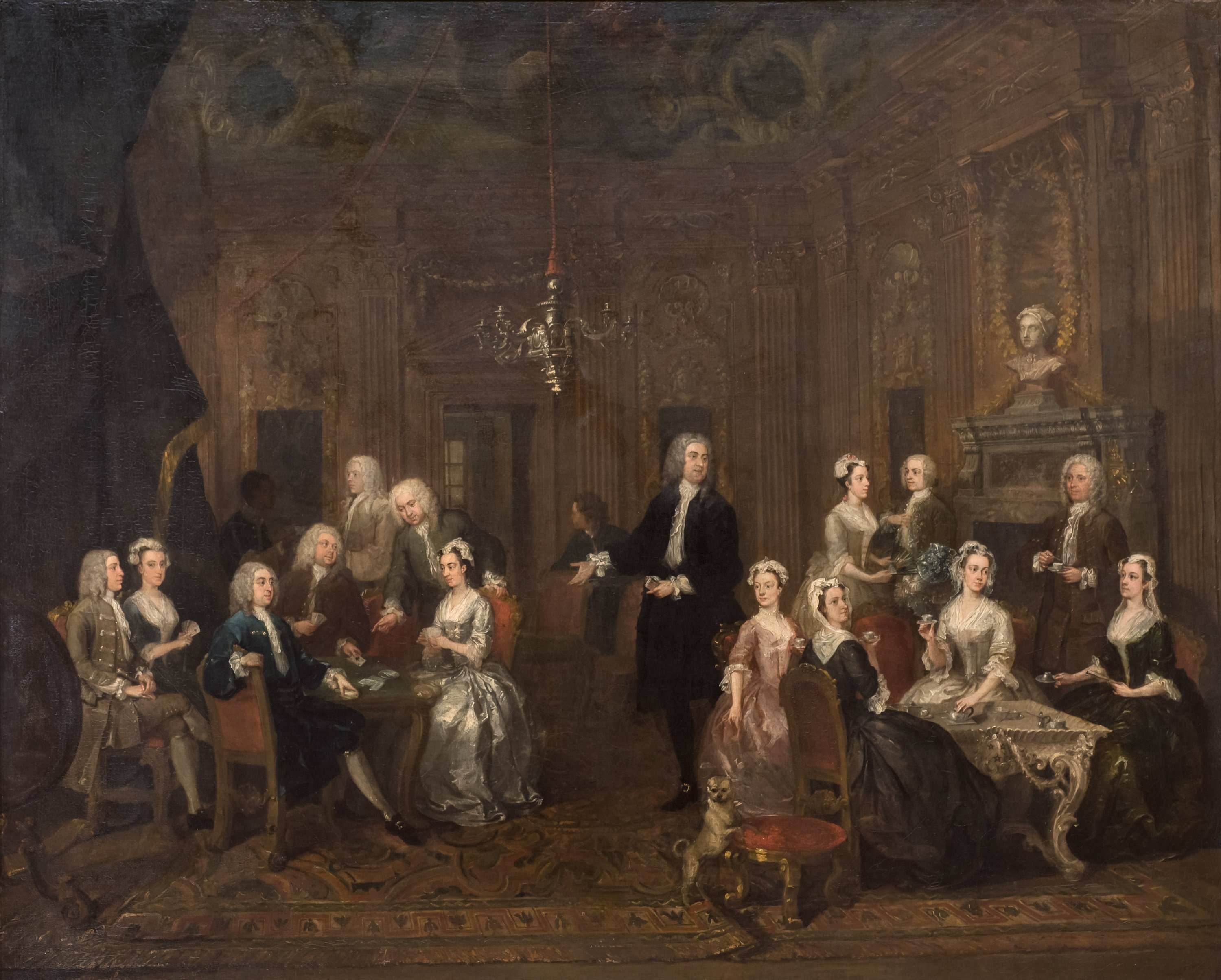 William Wollaston (1693 – 1757) and his family. Now in the New Walk Museum and Art Gallery, Leicester. Key to sitters